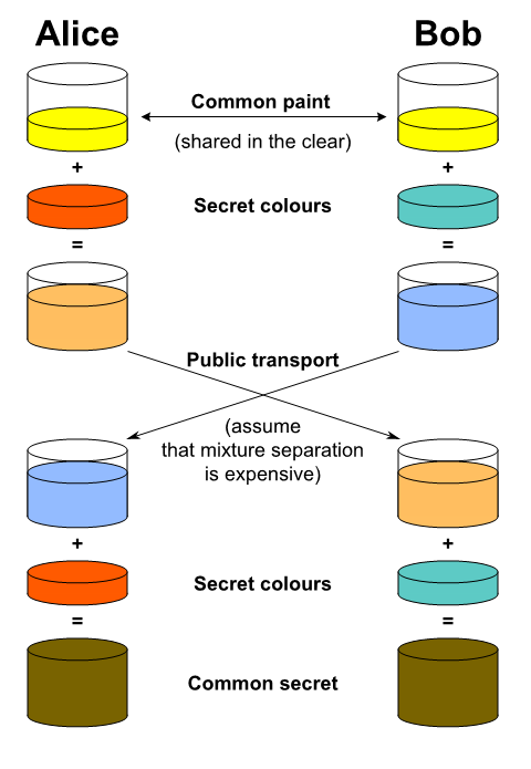 Illustration of the idea of the Diffie-Hellman key exchange.